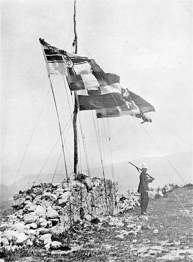 Flags of Great Powers on Shkodër fortress, May 1913.